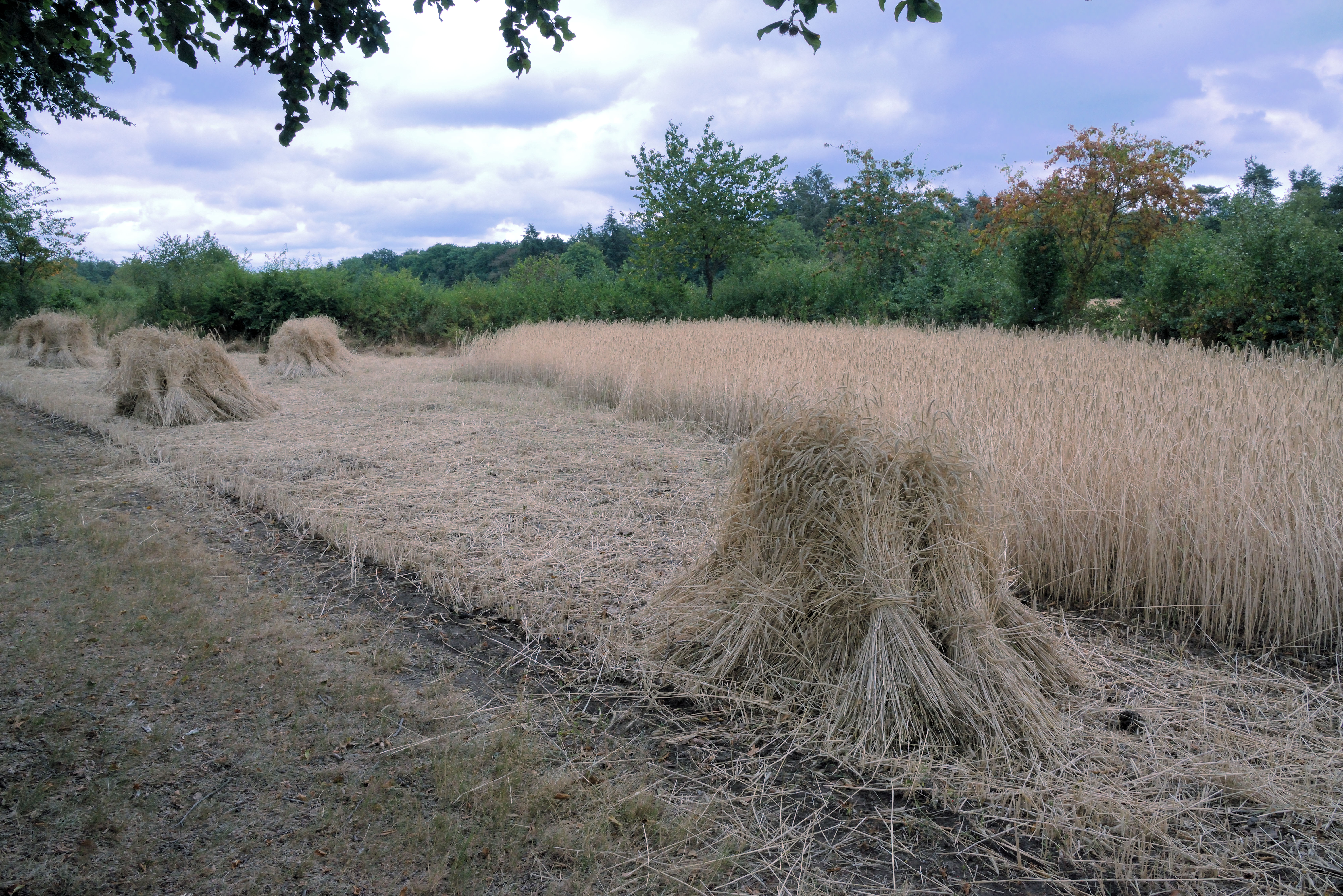 Secale_cereale